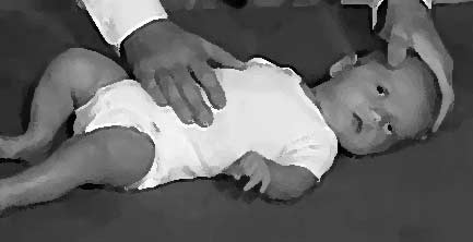 Tonic neck reflex in a young infant.